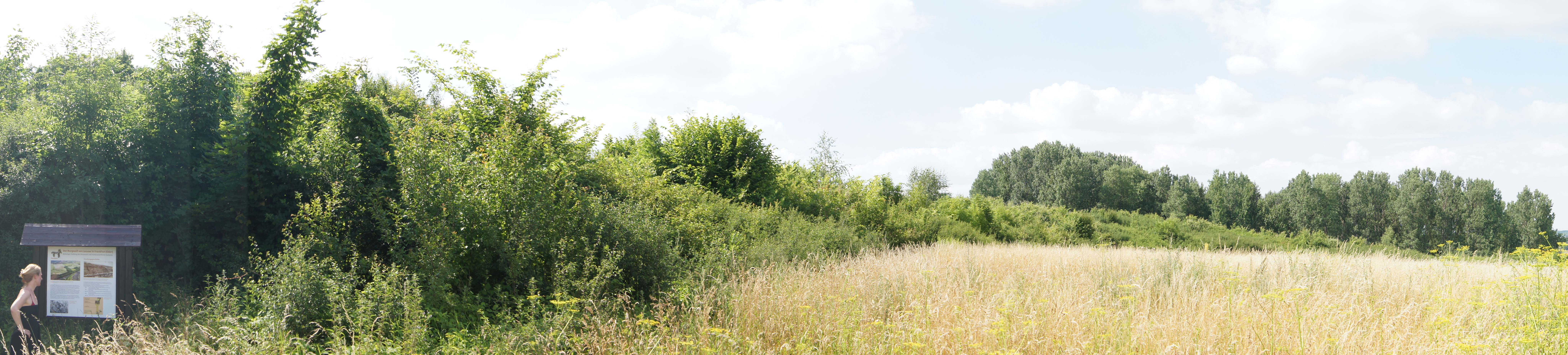 Slavic castle barrier near Lossow, Frankfurt (Oder), Brandenburg, Germany. View to the barrier (with bushes)